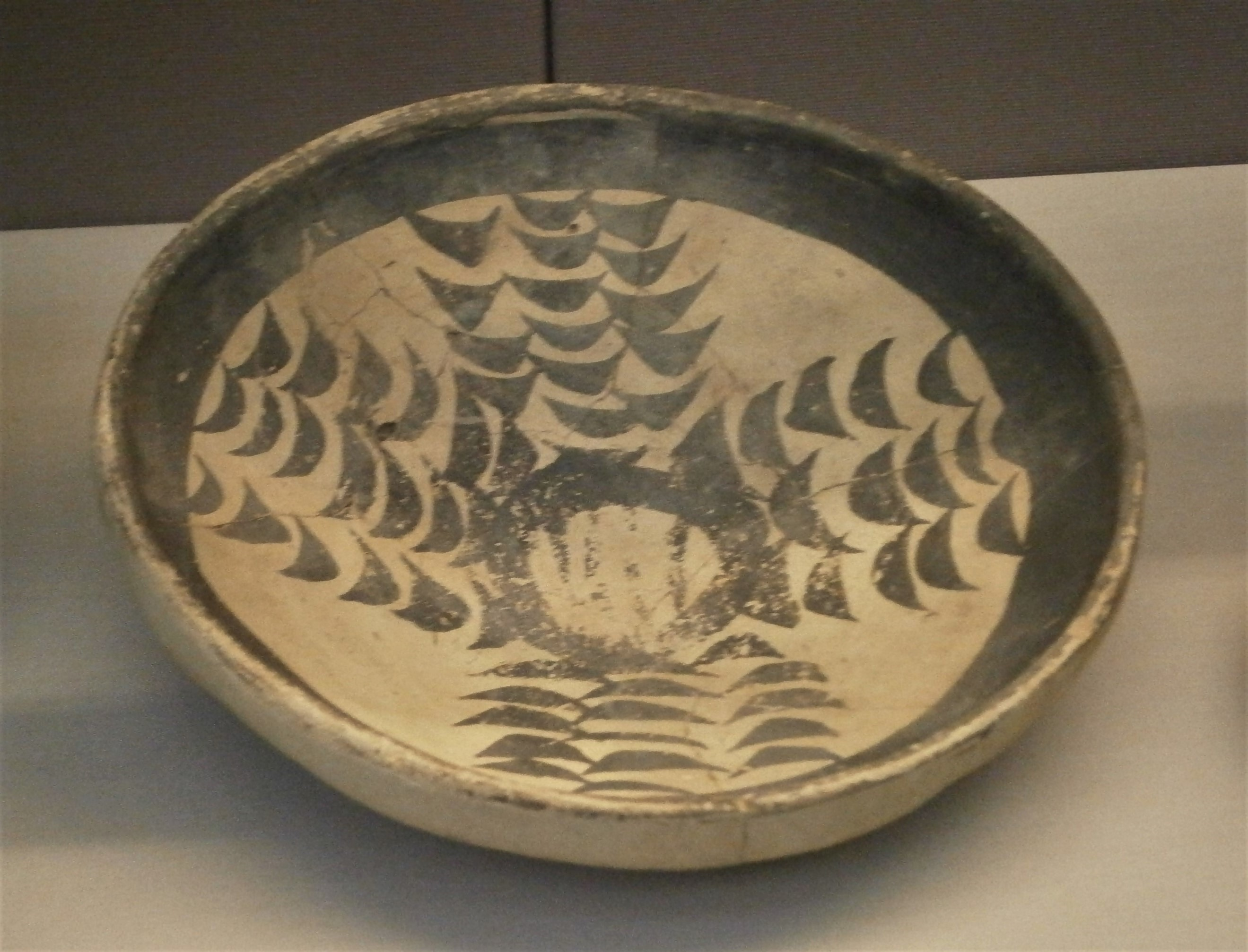 Painted bowl, decorated with geometric designs in dark paint. From Ur, Late Ubaid period, c. 5200-4200 BC. ME 122893.